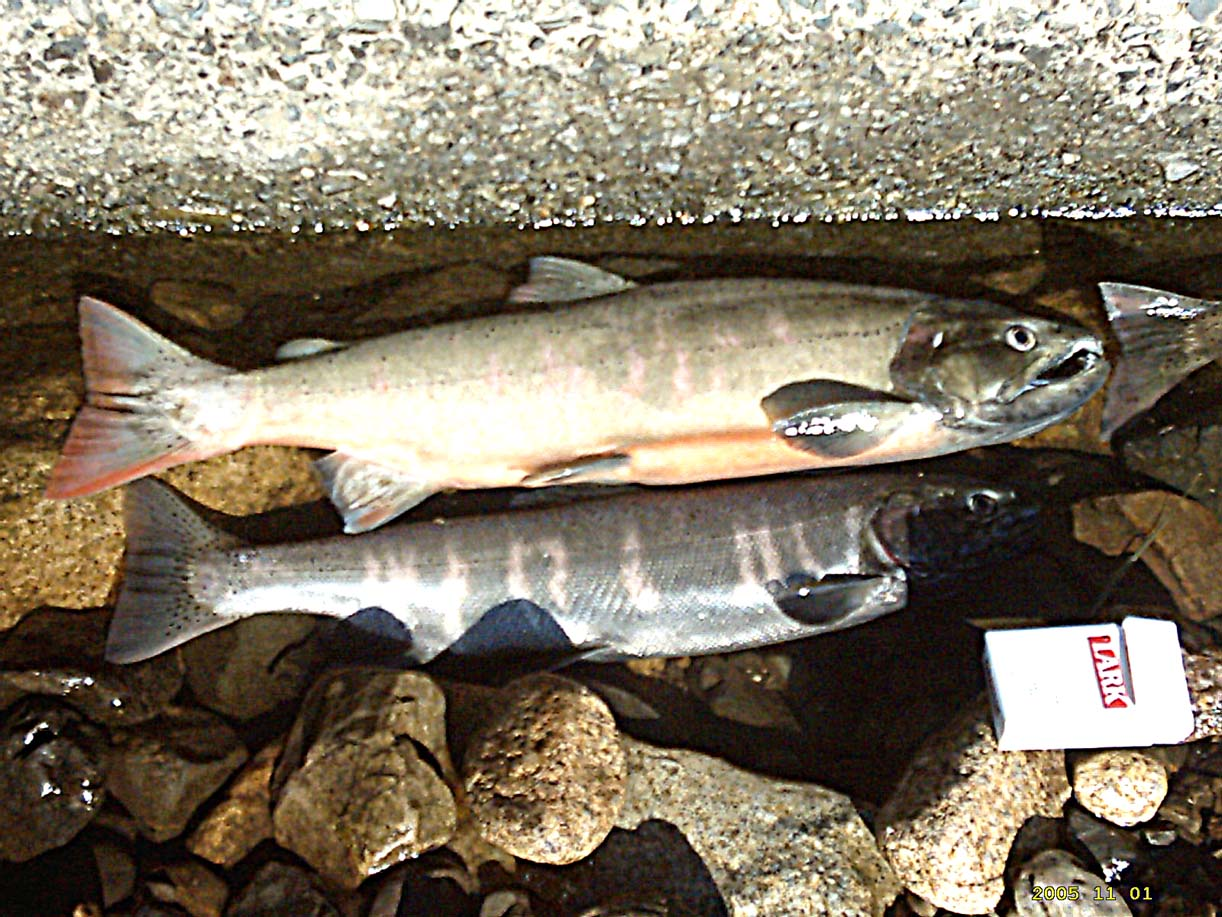 species: Oncorhynchus masou rhodurus Biwa or Masou trout (or Biwa salmon) which returned to river which flowed into the northern Lake Biwa in Shiga Prefecture, Japan for spawning. A breeding color has appeared. Top- 20.2in(514mm) male Bottom- 16.9in(429mm) female This trout is enzootic to Lake Biwa, Japan. Date: Nov. 01, 2005(JST) Caught & Photo by Vineyard user:OAS